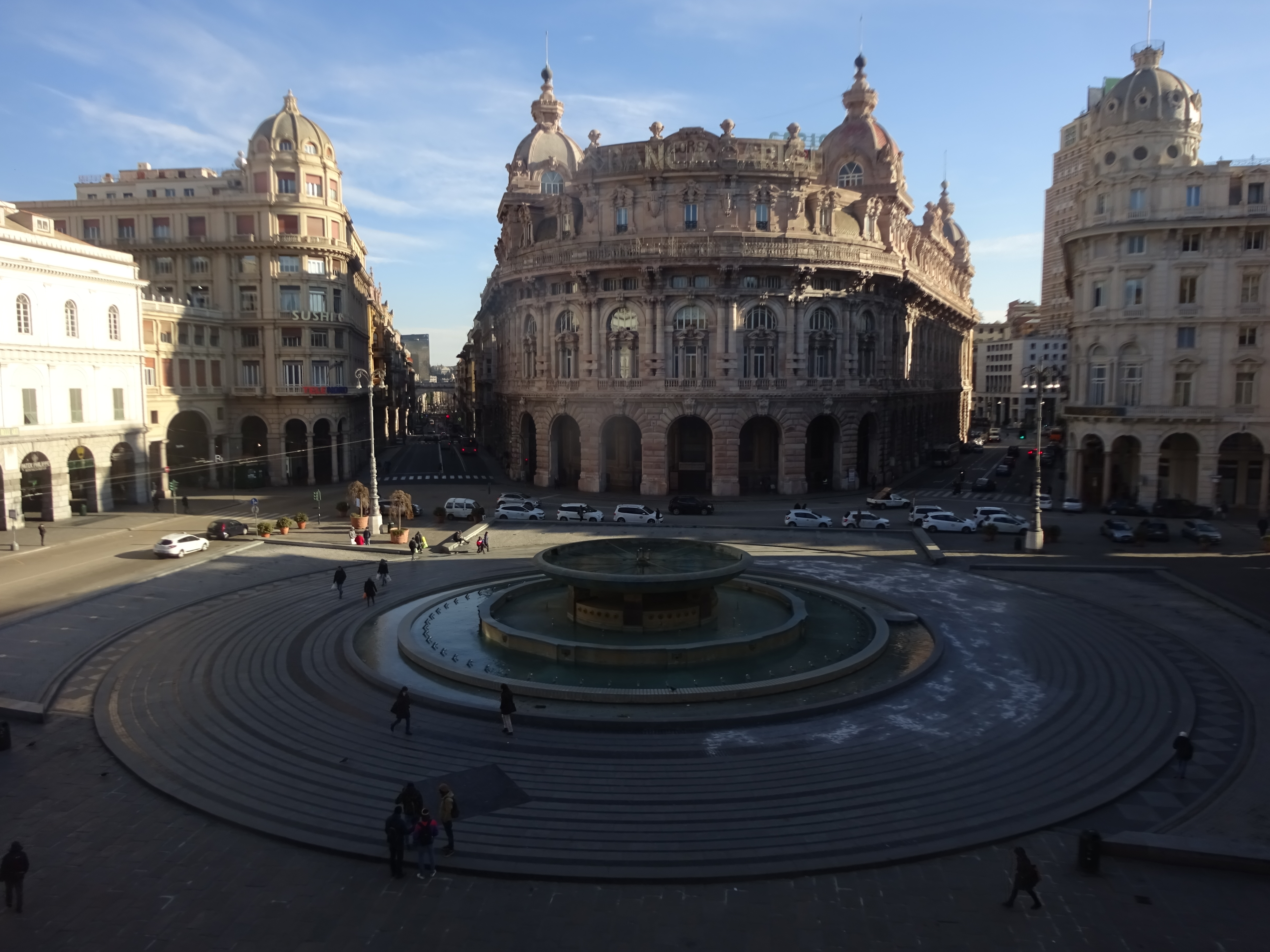 The fountain in De Ferrari Square in Genoa This is a photo of a monument which is part of cultural heritage of Italy.